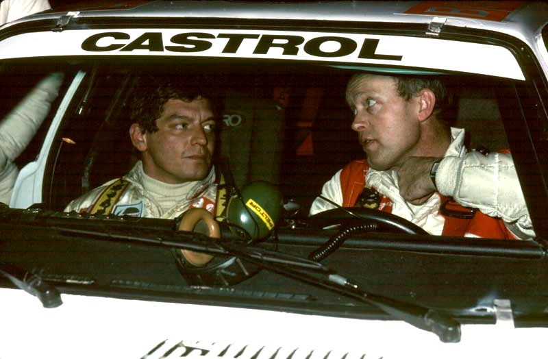 Austrian Rallycross legend Franz Wurz (left) as co-pilot to Swedish Rally star Björn Waldegård (right) pictured during the 1984 Jänner-Rallye in Austria in their Audi quattro.